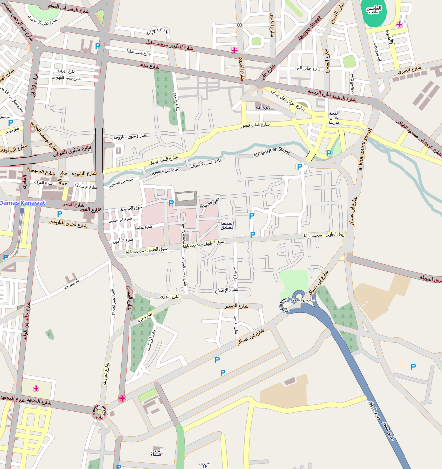 Map of Old Damascus Geographic limits of the map: N: 33.52339° S: 33.49552° W: 36.29333° E: 36.32491°